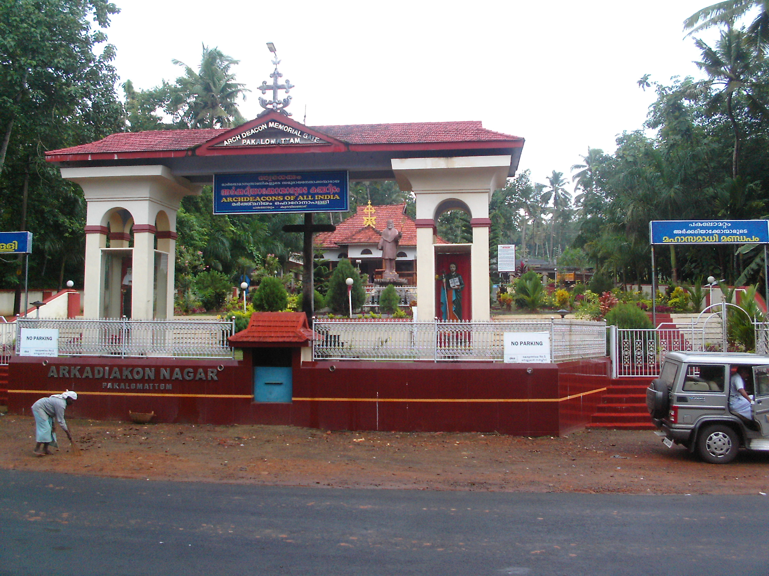 Cemetery of the Archdeacons in Kuravilangad, Kerala, Indien